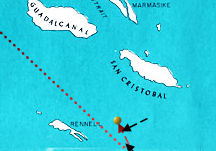 Japanese air attack on U.S. Task Force (TF) 18, morning of January 30, 1943. Key: Yellow dot: U.S. cruiser Chicago, fleet tug Navajo, and escorting destroyers. Dotted red line: Attacking Japanese torpedo bombers. Dashed black arrows: U.S. carrier fighter attacks on the Japanese torpedo bombers. Background taken from [1] (which is a U.S. government public domain document) and modified by myself, cla68, on July 22, 2006 to add forces battle tracks. Released under the GFDL.